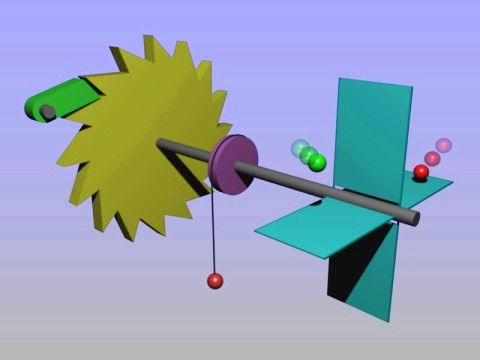 Feynman's ratchet